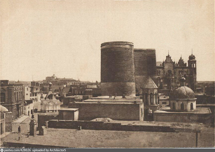 Armenian church Surb Astvatsatsin in Icheri Sheher quarter, Baku.